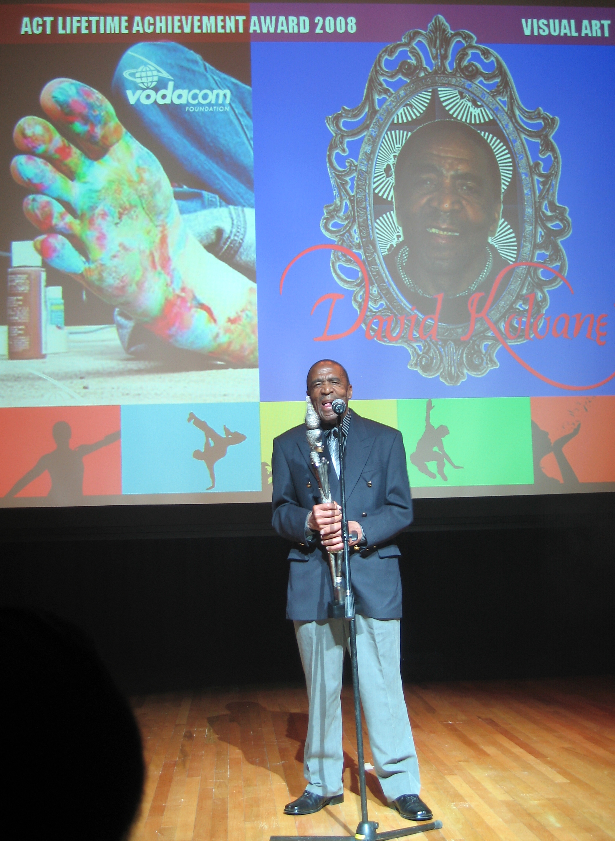 David Koloane receives the ACT (Arts & Culture Trust) Lifetime Achievement Award on 18 September 2008 at the Nedbank building in Sandton, Johannesburg; along with singer Miriam Makeba and outgoing director of the National Arts Festival, Lynette Marais.